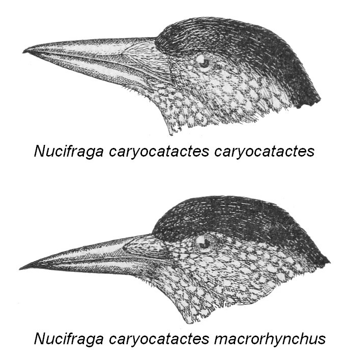 Two Spotted Nutcracker subspecies: Nucifraga caryocatactes caryocatactes (above), and Nucifraga caryocatactes macrorhynchos (below)